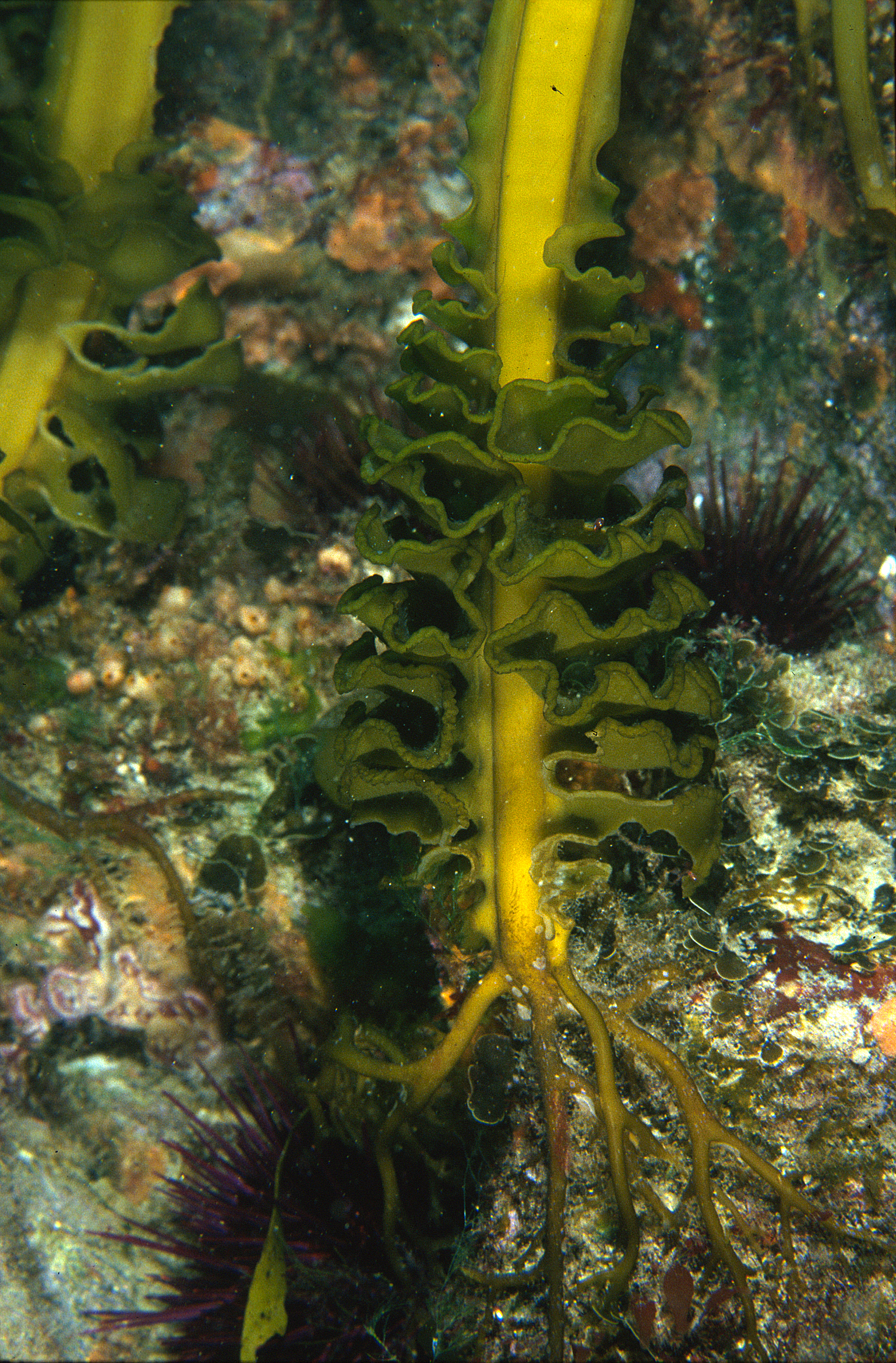 Undaria pinnatifida is a brown seaweed that reaches an overall length of 1-3 m. Undaria is a native of the Japan Sea and the northwest Pacific coasts of Japan and Korea. In Japan, Undaria, known locally as 'wakame', is extensively cultivated as a food plant. Japanese consumption of the alga is around 200,000 tonnes of fresh or dried plant per annum. Undaria is regarded as a pest because it is highly invasive, grows rapidly and has the potential to overgrow and exclude native seaweeds. It was first detected in Australia in 1988 near Triabunna on the east coast of Tasmania. Over the following ten years it spread along 100 kms of the Tasmanian east coast and also to Victoria - the most likely vector being international shipping.